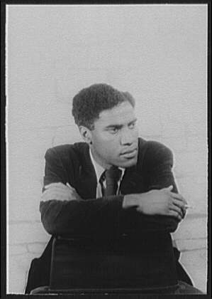 Portrait of George Lamming